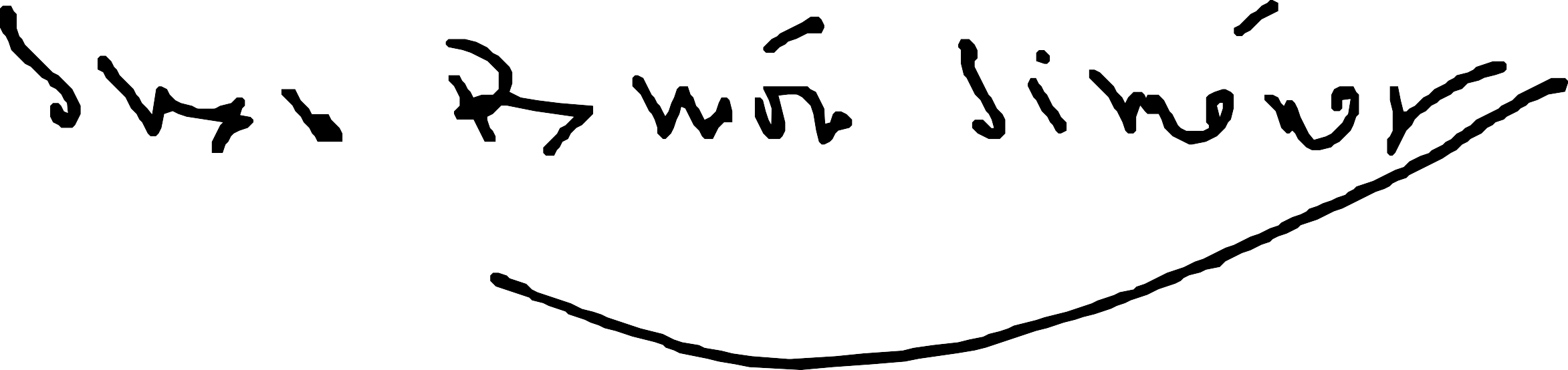 Signature of Juan Ramón Jiménez, Spanish writer.